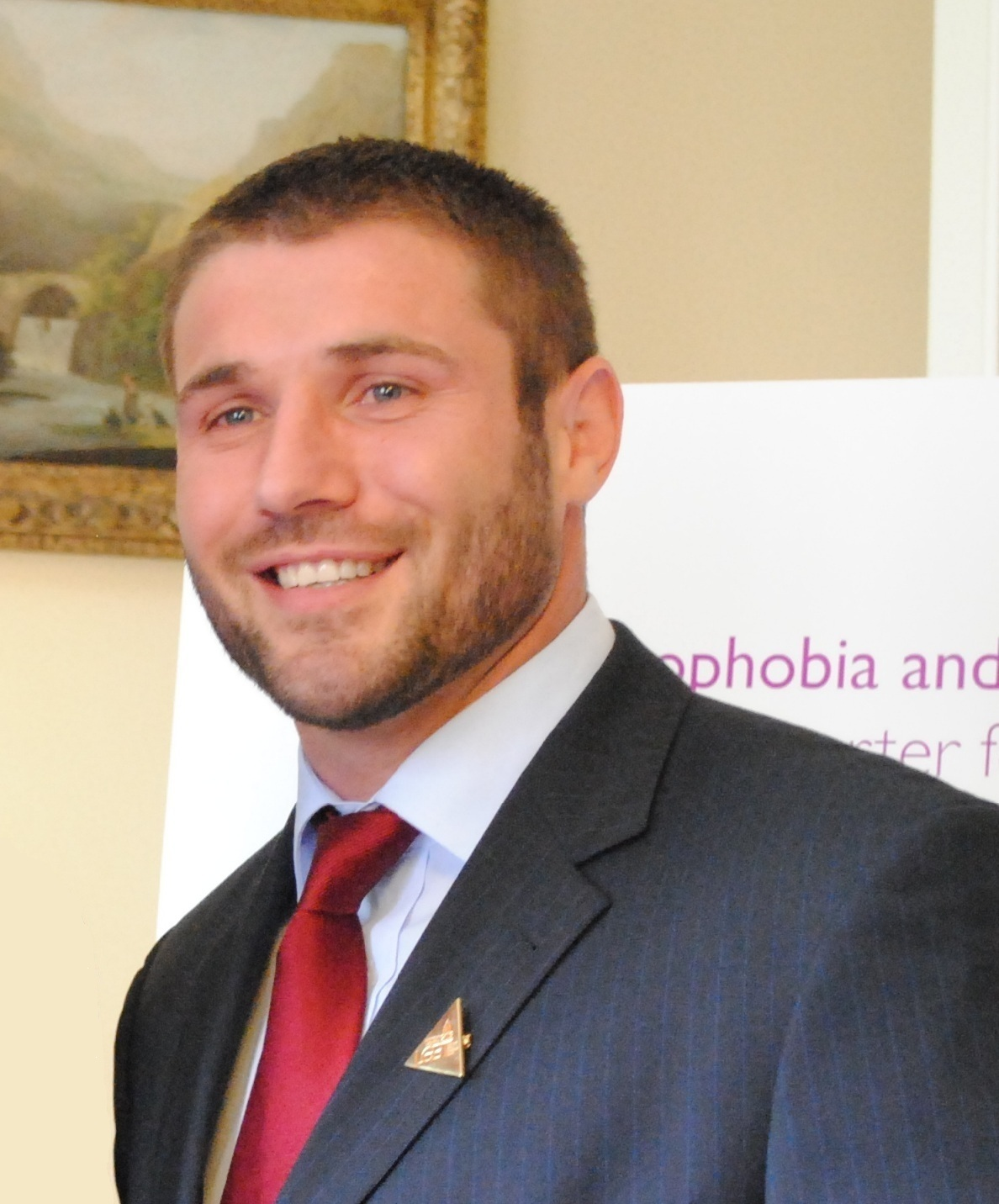 Ben Cohen at a LGTB reception at No10 to launch new campaign to kick homophobia and transphobia out of sport.